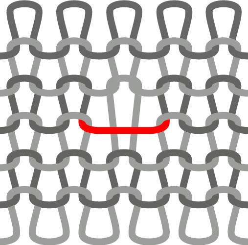 lost stitch 500px